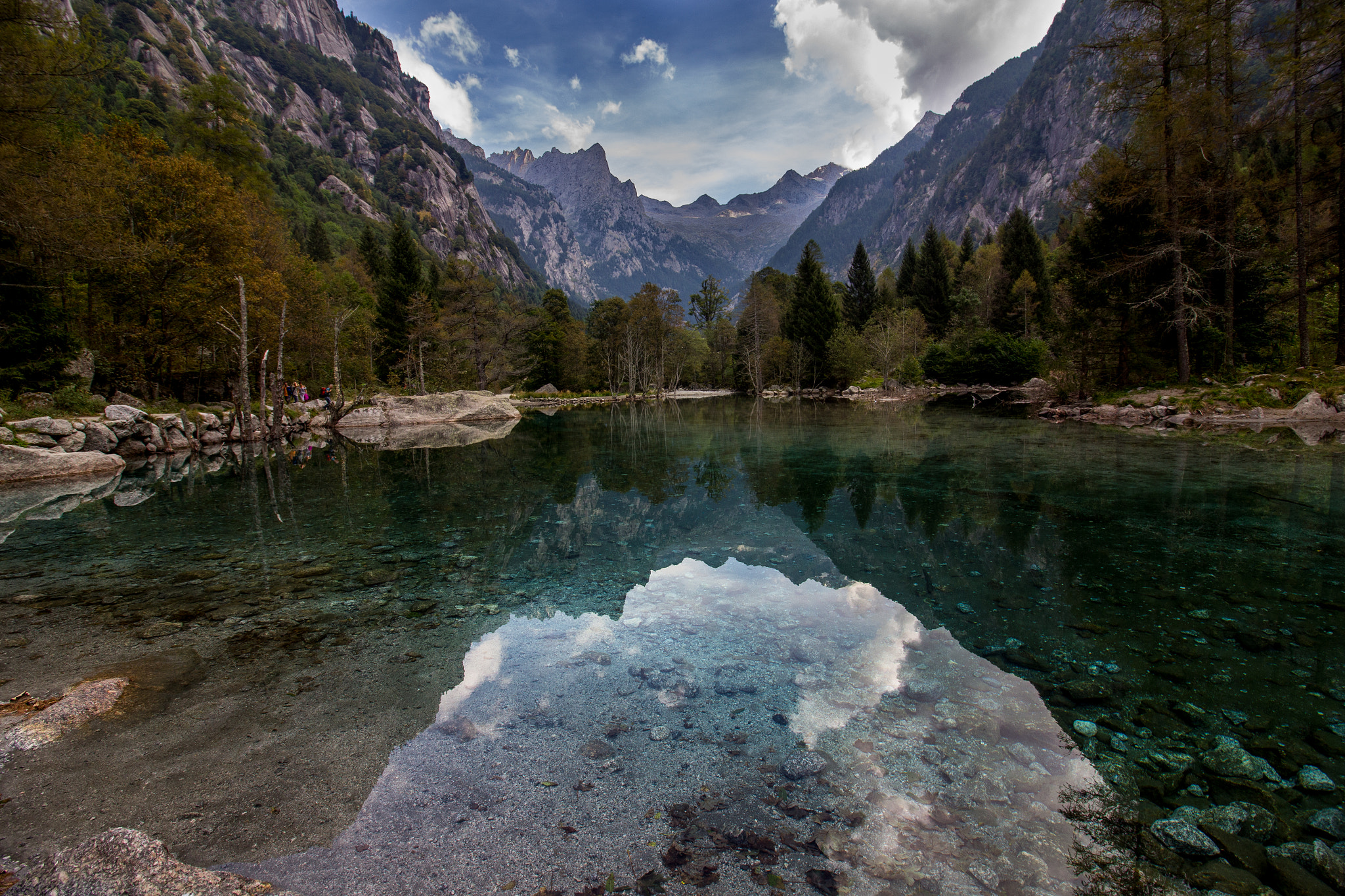 500px provided description: Val Di Mello [#sky ,#landscape ,#lake ,#reflections ,#mountains ,#water ,#reflection ,#clouds ,#italy ,#tree ,#landscapes ,#mountain ,#symmetry ,#val di mello ,#mello]